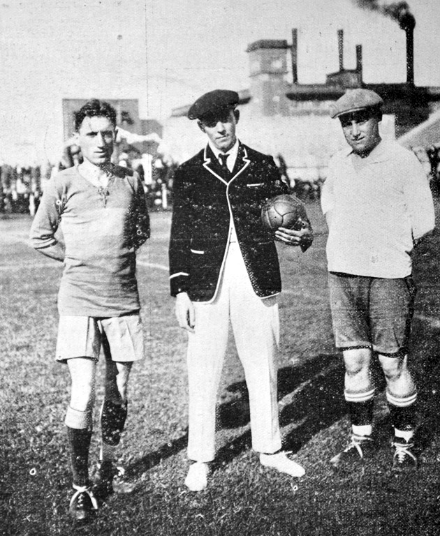 Boca Juniors (Primera División) v. Tiro Federal (Liga Rosarina) before playing the 1920 Copa Ibarguren final in Buenos Aires. Pedro Calomino (left), Servando Pérez (referee) and Lorenzo Colombo (Tiro Federal goalkeeper) posing for the camera. The first game had been won by Boca Juniors by 2-1 but was annulled. In the second and definitive match, Tiro Federal beat Boca Juniors by 4-0 and won the cup.